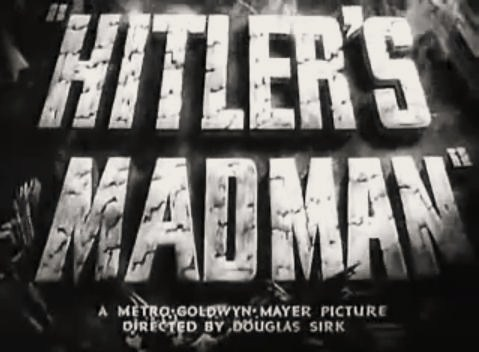 Hitler's Madman trailer - title (cropped screenshot)